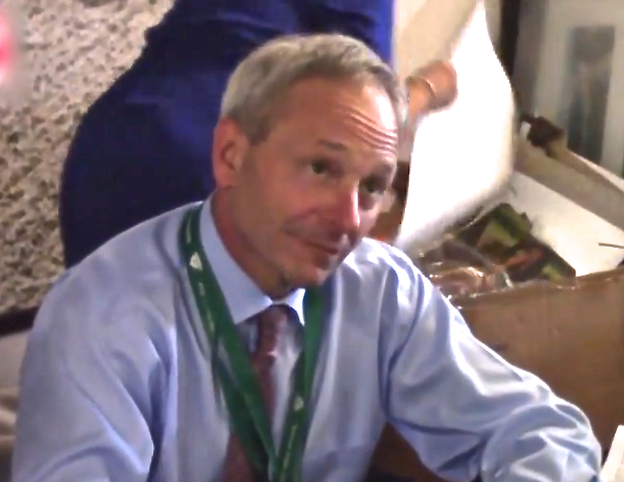 Steve Cauthen, Triple Crown winning jockey of Affirmed (1978), at 2014 Belmont Stakes